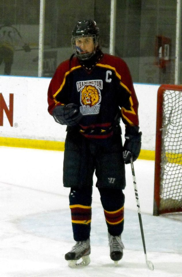 This photo was taken by Devan Mighton during the 2014-15 WECSSAA season.